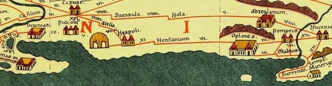 Crop of the Pompeii area from the Tabula Peutingeriana, 14th century CE. Facsimile edition by Conradus Millerus, 1887/1888